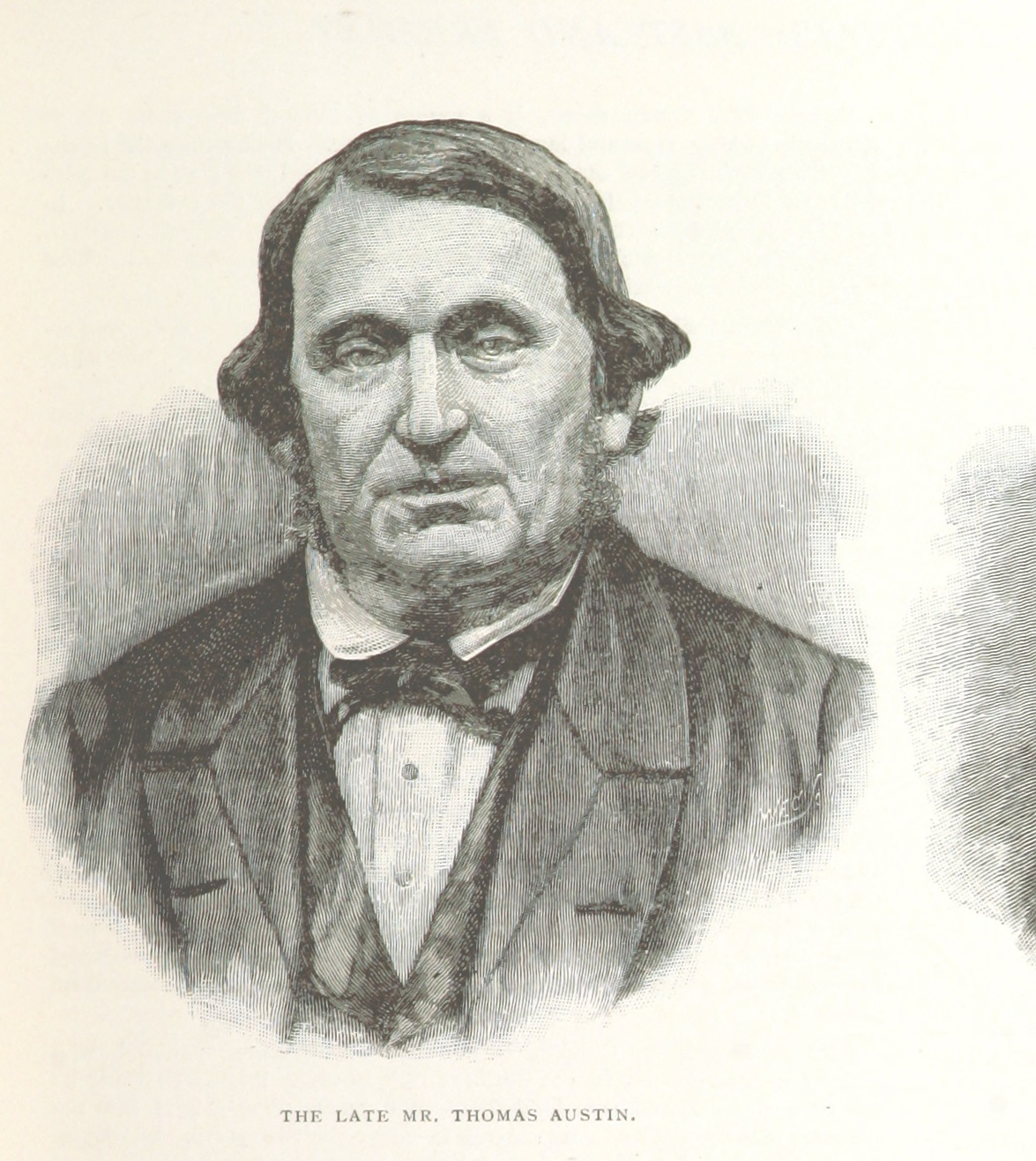 English settler of Australia Thomas Austin, generally credited with introducing rabbits to Australia in 1859.